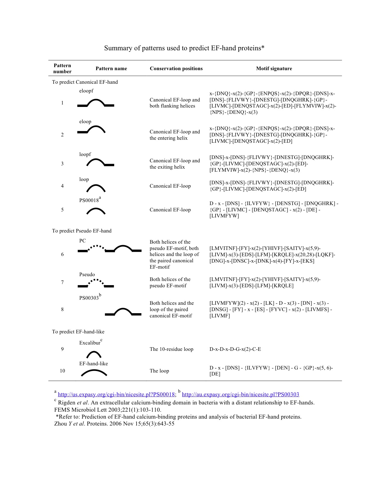 Summary of patterns used to predict EF-hand proteins. Online prediction is available at